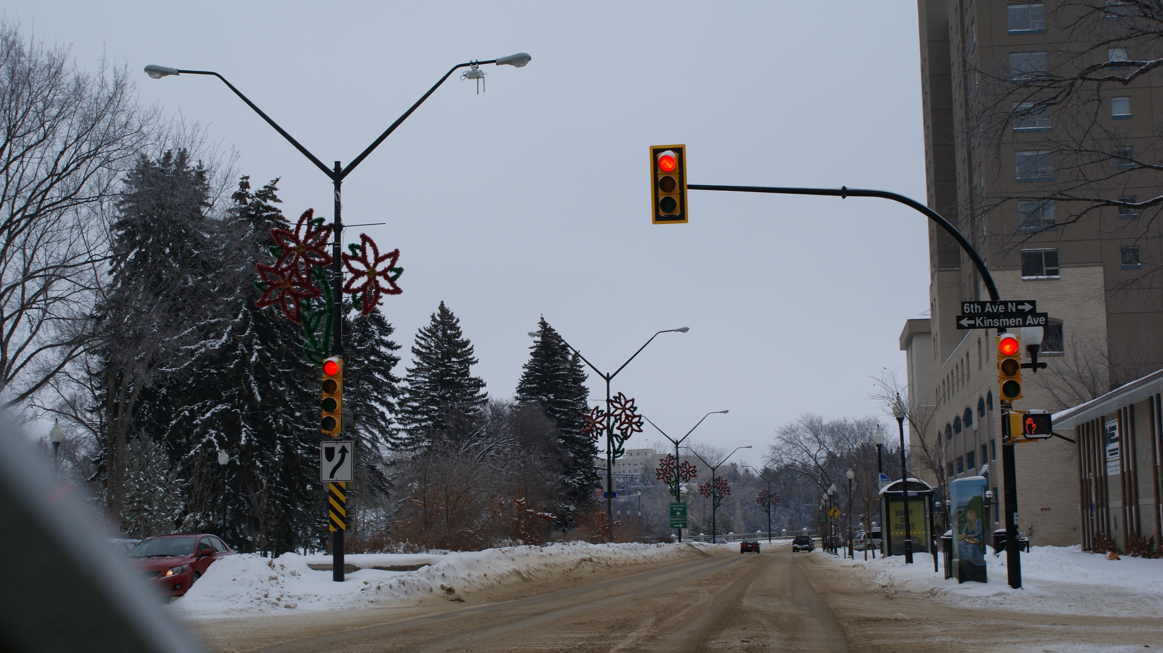 Entrance to University Bridge in Saskatoon along 25th ST E with Christmas Decorations and snow. Royal University Hospital in the top left background across the South Saskatchewan River.